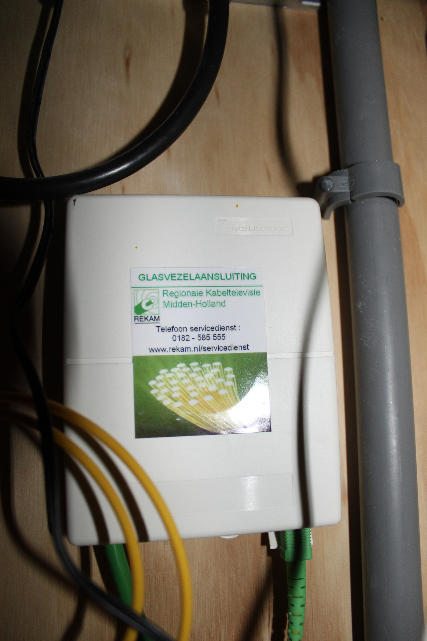 Fiber to the Home